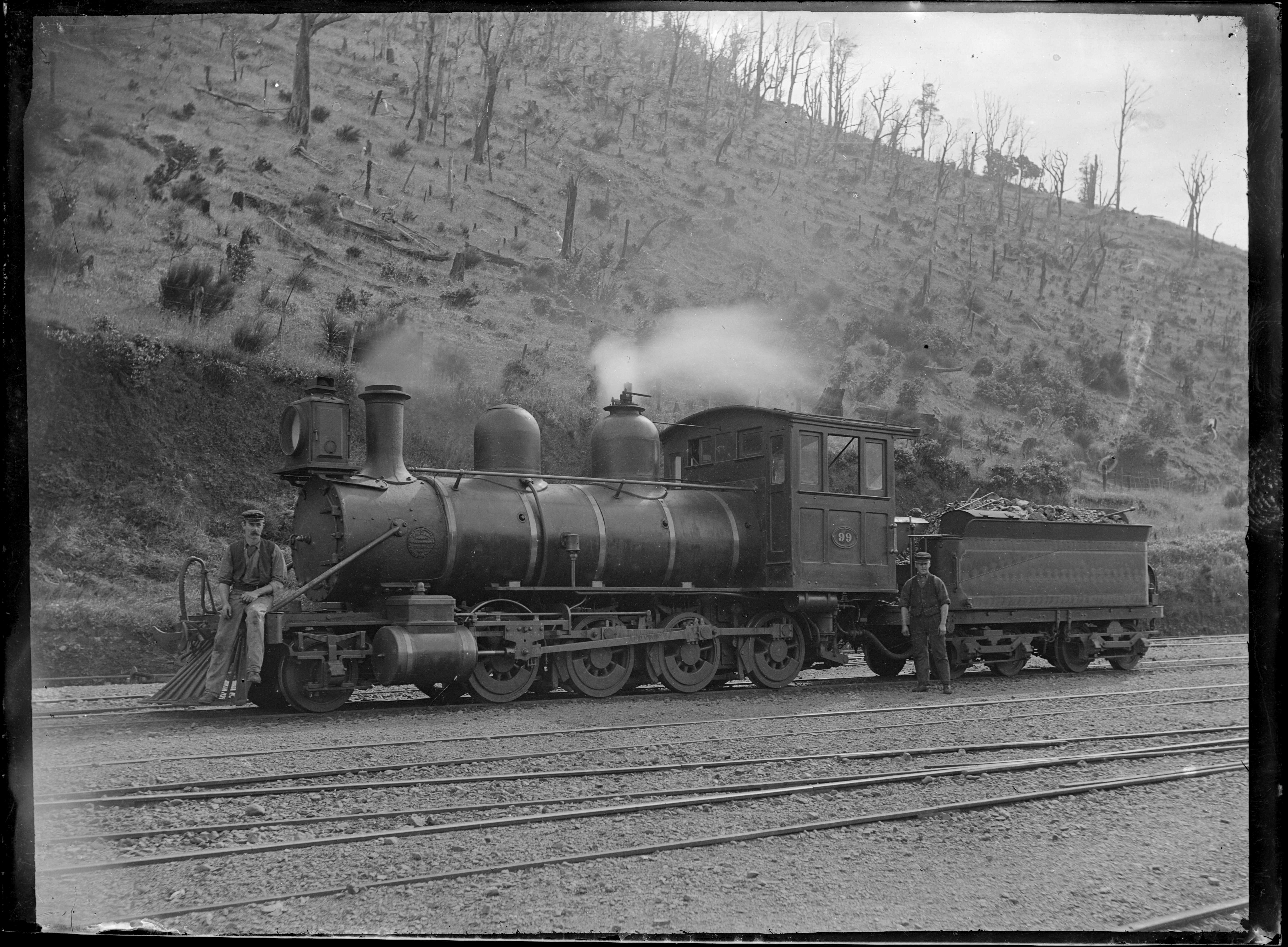 O Class steam locomotive NZR 99, 2-8-0 type, with two railway men (J Walsh sitting on the front of the engine, and Frank Joseph Golder standing near the back). Photograph taken circa 1921 at Cross Creek by Albert Percy Godber. Names of men from Godber Album vol 108, p 36; date and location from 'Cavalcade of New Zealand locomotives' by A N Palmer & W W Stewart, p 56.